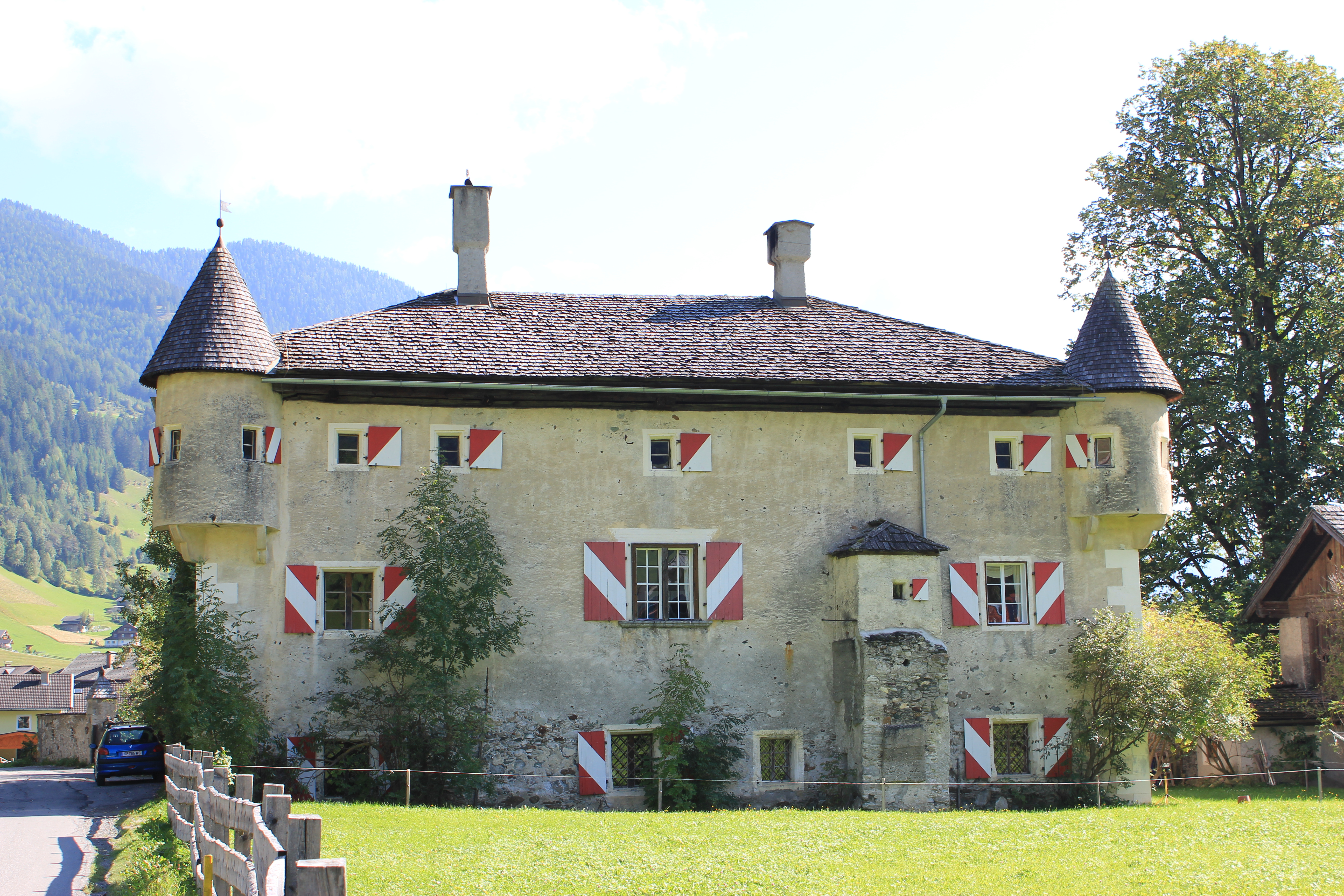 Castle in Großkirchheim